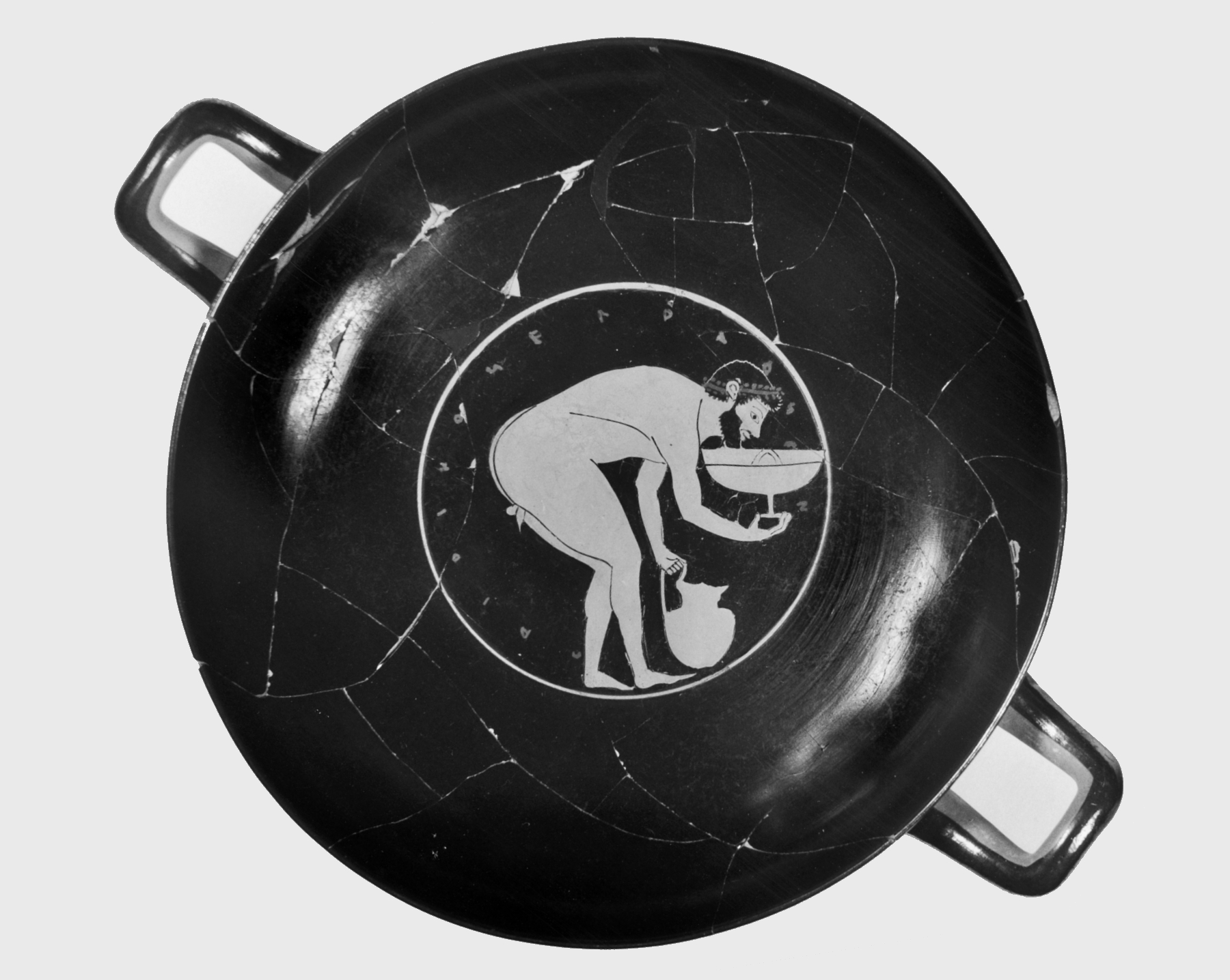 This red-figure kylix depicts a wreathed symposiast in the tondo. He bends over to the right looking into a cup which he holds delicately by the foot in his right hand; the end of his beard disappears into the vessel. In the left he holds an oinochoe which rests on the ground. The pose of the figure is innovative, and although komasts are frequently depicted in the tondo of archaic Attic red-figure cups, none share this pose. This is the only vase signed by Paidikos as painter.